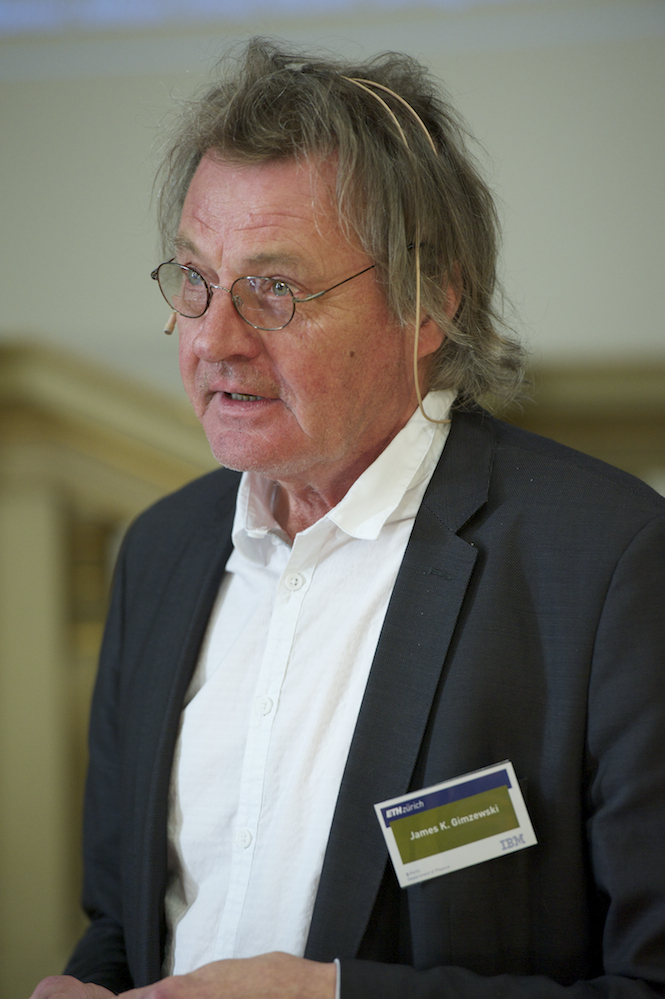 Jim Gimzewski at the Memorial Symposium for Heinrich Rohrer at ETH Zurich on 31 October 2013 © D-PHYS/Heidi Hostettler